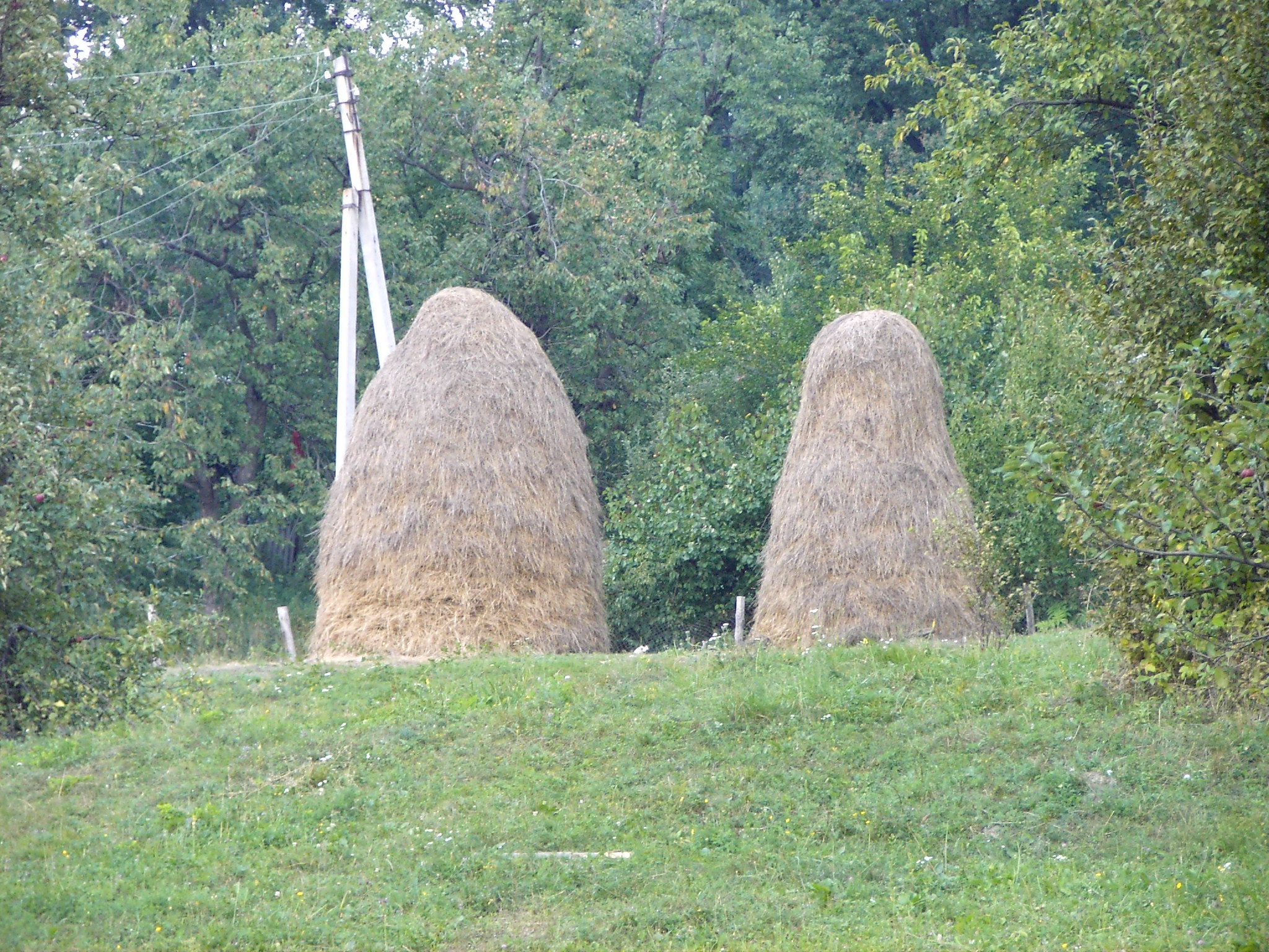 hay-stack at a Moldovan village